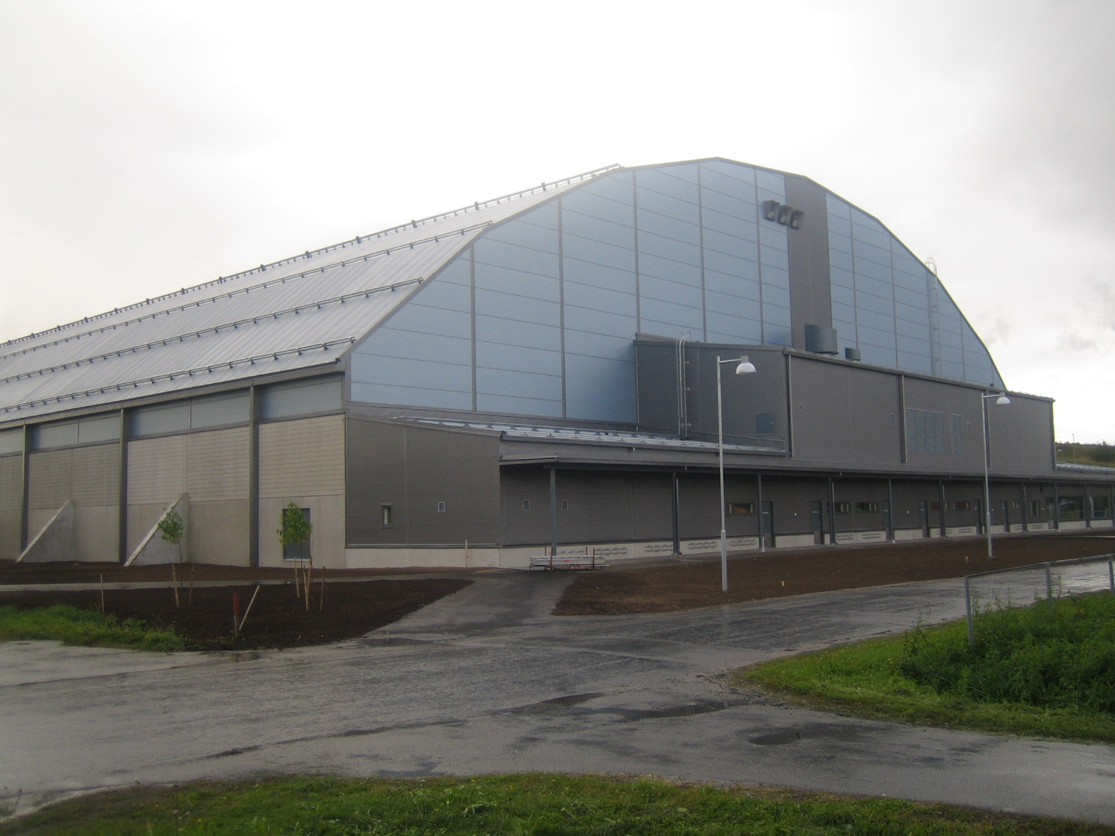 Heinäpää indoor football arena in Nuottasaari, Oulu, Finland